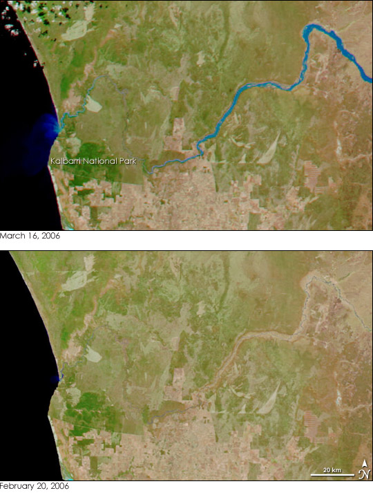 The largest flood on record on Australia’s Murchison River was expected to peak at the river’s mouth on March 16, 2006, reported the Australian Broadcasting Corporation. The Moderate Resolution Imaging Spectroradiometer (MODIS) on NASA’s Aqua satellite captured the top image on the afternoon of March 16. On the right side of the image, the upper reaches of the Murchison River are clearly flooded with a wide blue band expanding out from the river’s normal banks. As it enters Kalbarri National Park, the river winds through deep gorges that prevented it from spreading out. Only when it reaches the coast is the river wide again. A bright blue fan of sediment pours from the mouth of the river where mud-laden flood water is draining into the Indian Ocean. The river overflowed after Cyclone Emma inundated the basin with heavy rain on March 1. The excess water took 15 days to drain to the ocean. The floods near the shore threatened the city of Kalbarri, which sits just south of the river. The floods may also have caused damage to Kalbarri National Park, which is centered around the river and the 80 kilometers of gorges it has cut in the red rock. Even without superimposed borders, the park’s southern boundary is clearly evident in this image. To the south of the river, a stark line separates the green park from the tan and pink land outside the park. The park’s western border is the Indian Ocean. The park’s northern and eastern borders are not visible.